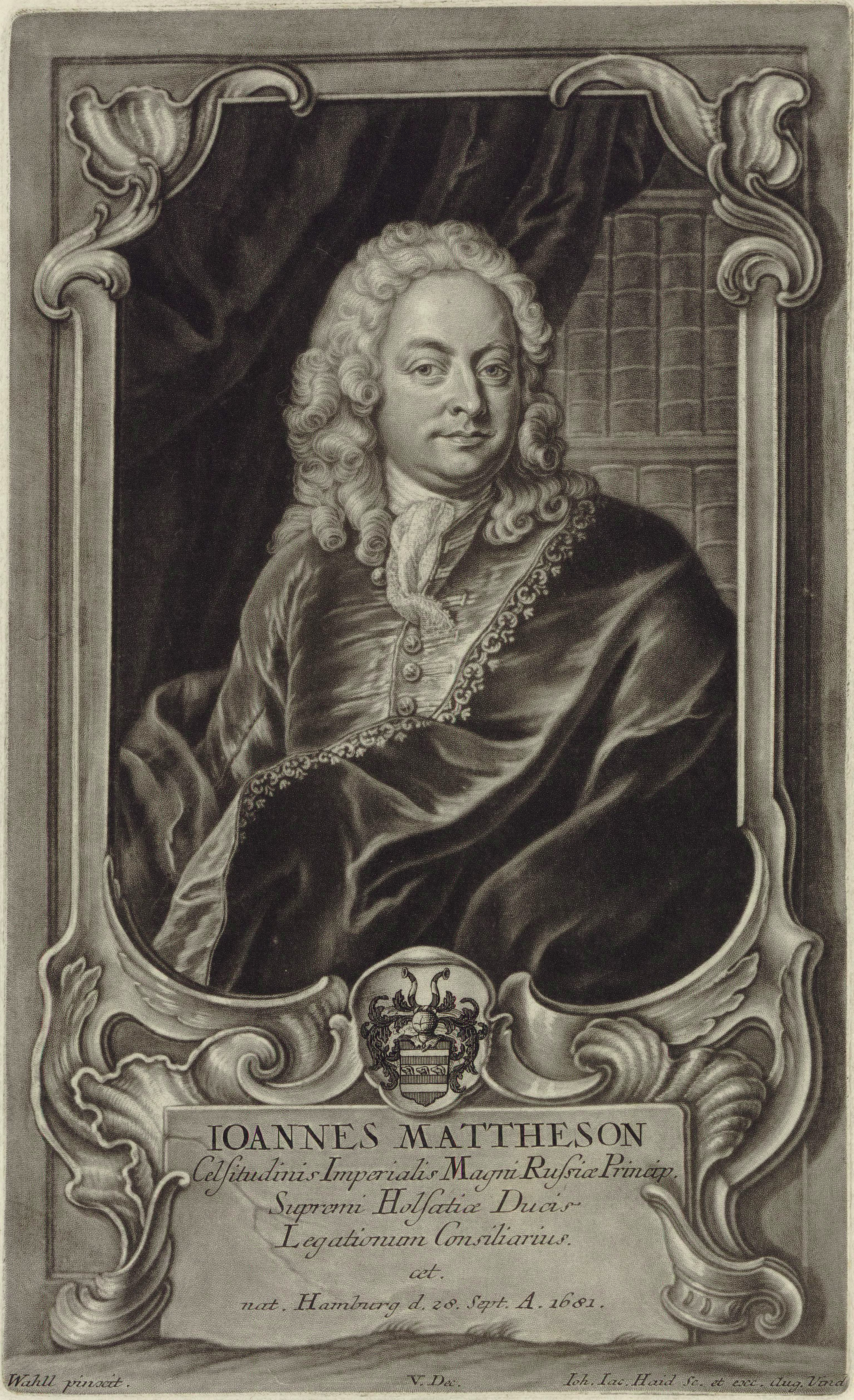 Engraving by Johann-Jakob Haid, after a painting by Wahll.